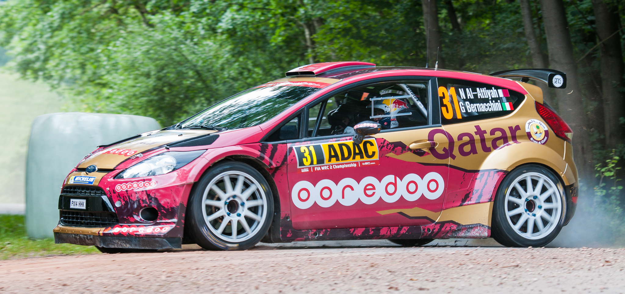 ADAC Rallye Deutschland 2014,FIA,FIA World Rally Championship,Ford Fiesta RRC,Giovanni Bernacchini,Motorsport,Nasser Al Attiyah,Nasser Al-Attiyah,Rally,Rallye,SS 5,WP 5,WRC 2,Waxweiler 2